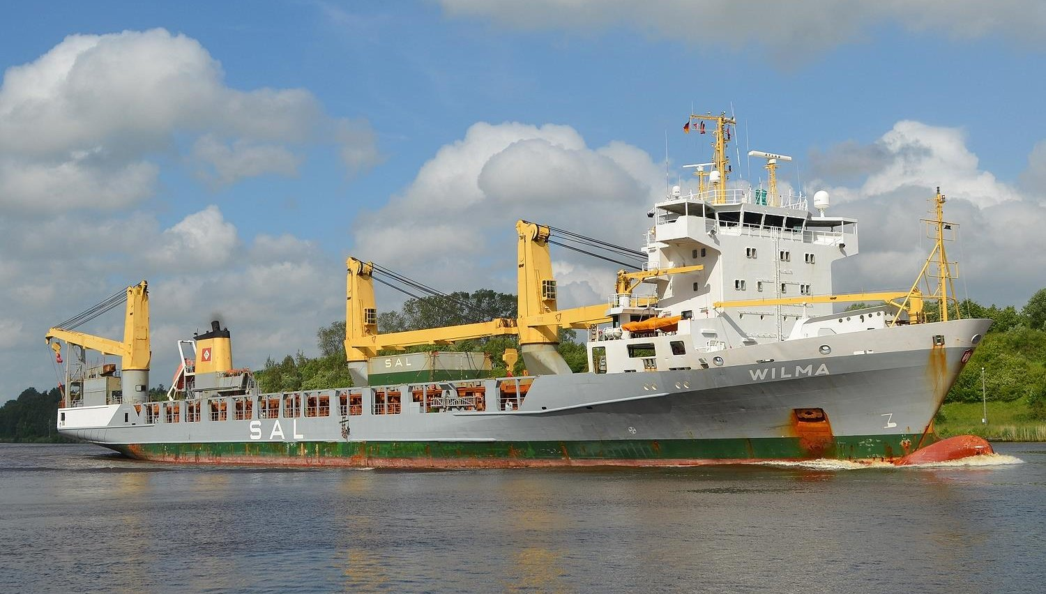 Heavy-lift ship WILMA (IMO 9147679) built at J.J. Sietas Schiffswerft, Hamburg-Neuenfelde (Sietas type 161, yard № 1099, launched: 19-07-1997, delivered: 18-09-1997) for Hans & Claus Heinrich, Hamburg (Schiffahrtskontor Altes Land), arrived Zhoushan for scrapping 10-03-2016, BU began 22-04-2016; photo by Jens Dohrn, Kiel Canal, 16-06-2013.